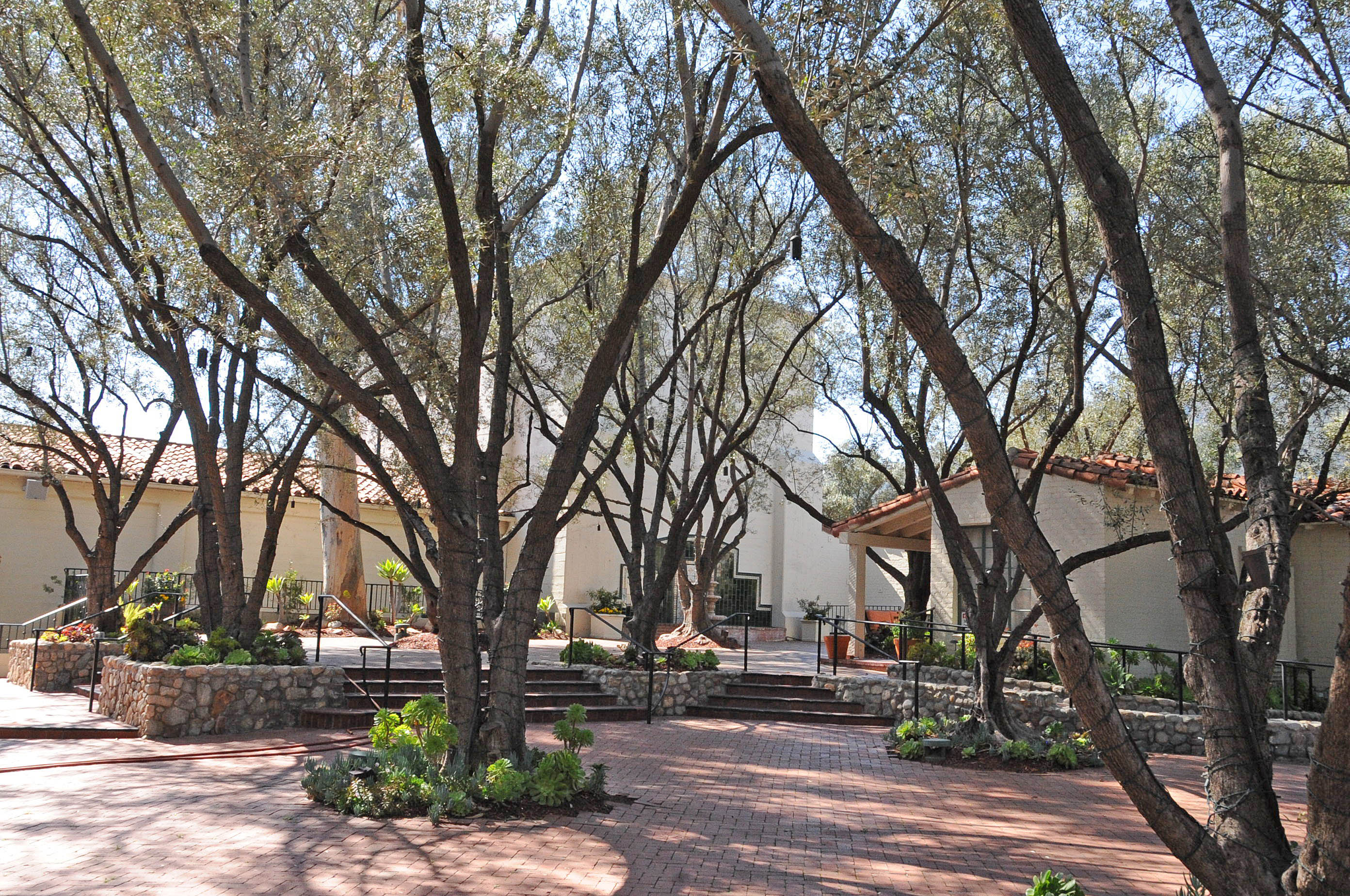 LONGEST RUNNING FEATURING MEXICAN-THEME MUSICALS IN THE U.S.; ESTABLISHED IN 1931. BUILDINGS ARE ARRANGED AROUND A CENTRAL COURTYARD WITH THEATER, RESTAURANT., ARTIST STUDIO AND RESIDENCES.